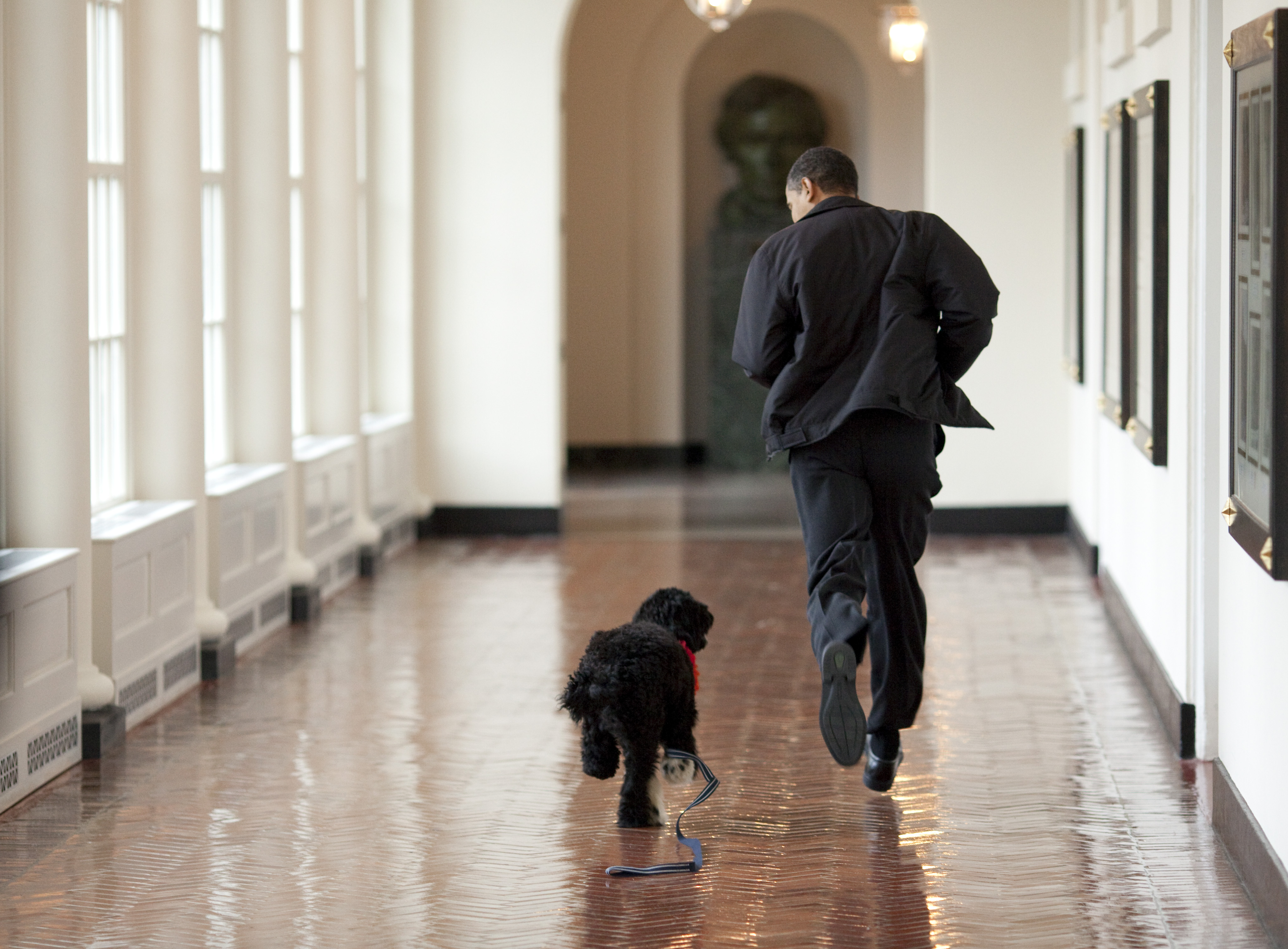 Per this photo's caption from the official White House website, "The Obamas welcome Bo, a six-month old Portuguese water dog and a gift from Senator and Mrs. Kennedy to Sasha and Malia, recently at the White House".